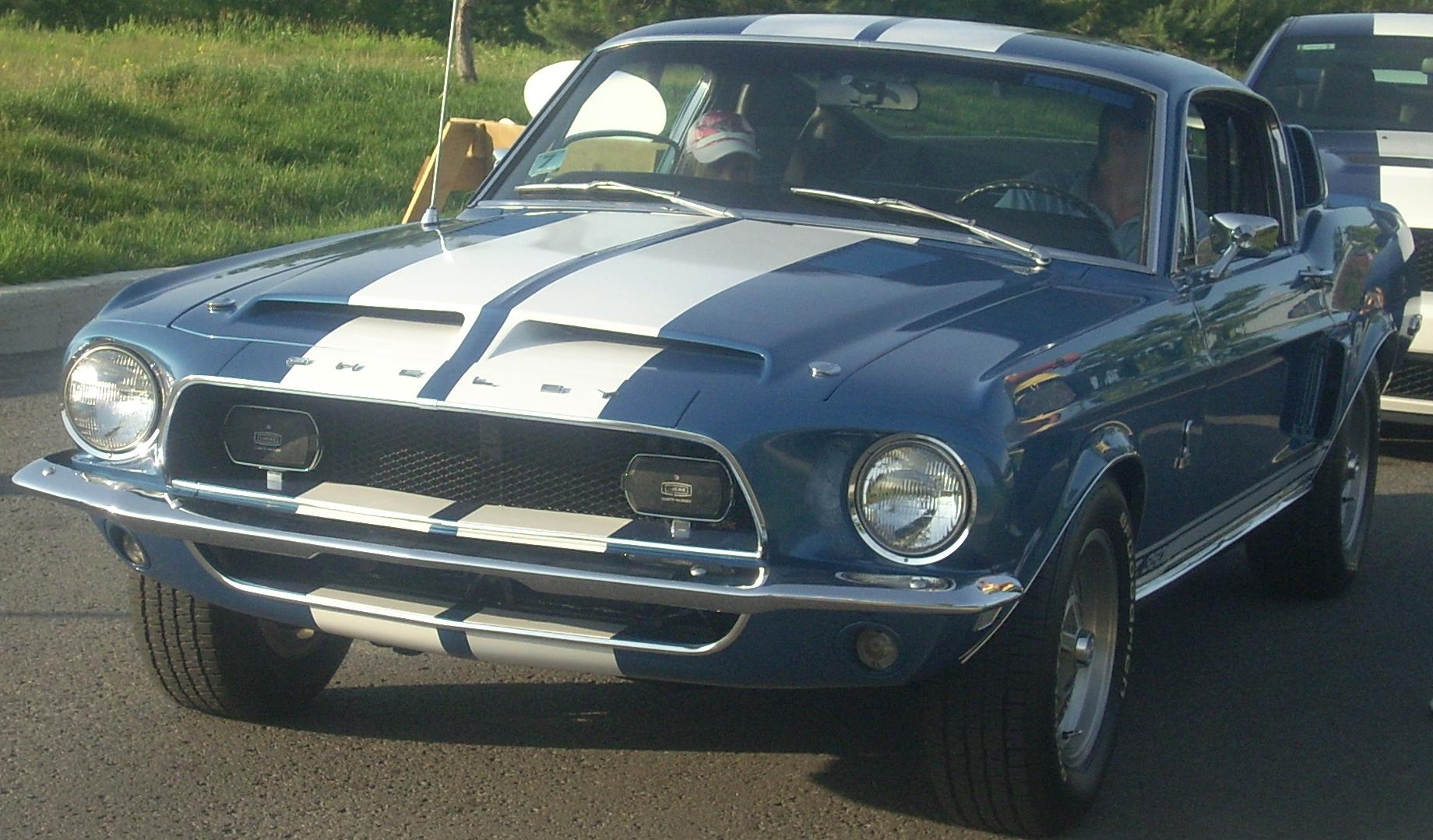 Shelby Mustang photographed in Laval, Quebec, Canada at Centropolis Laval.